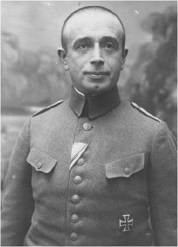 World War I Photograph of Hugo Gutmann